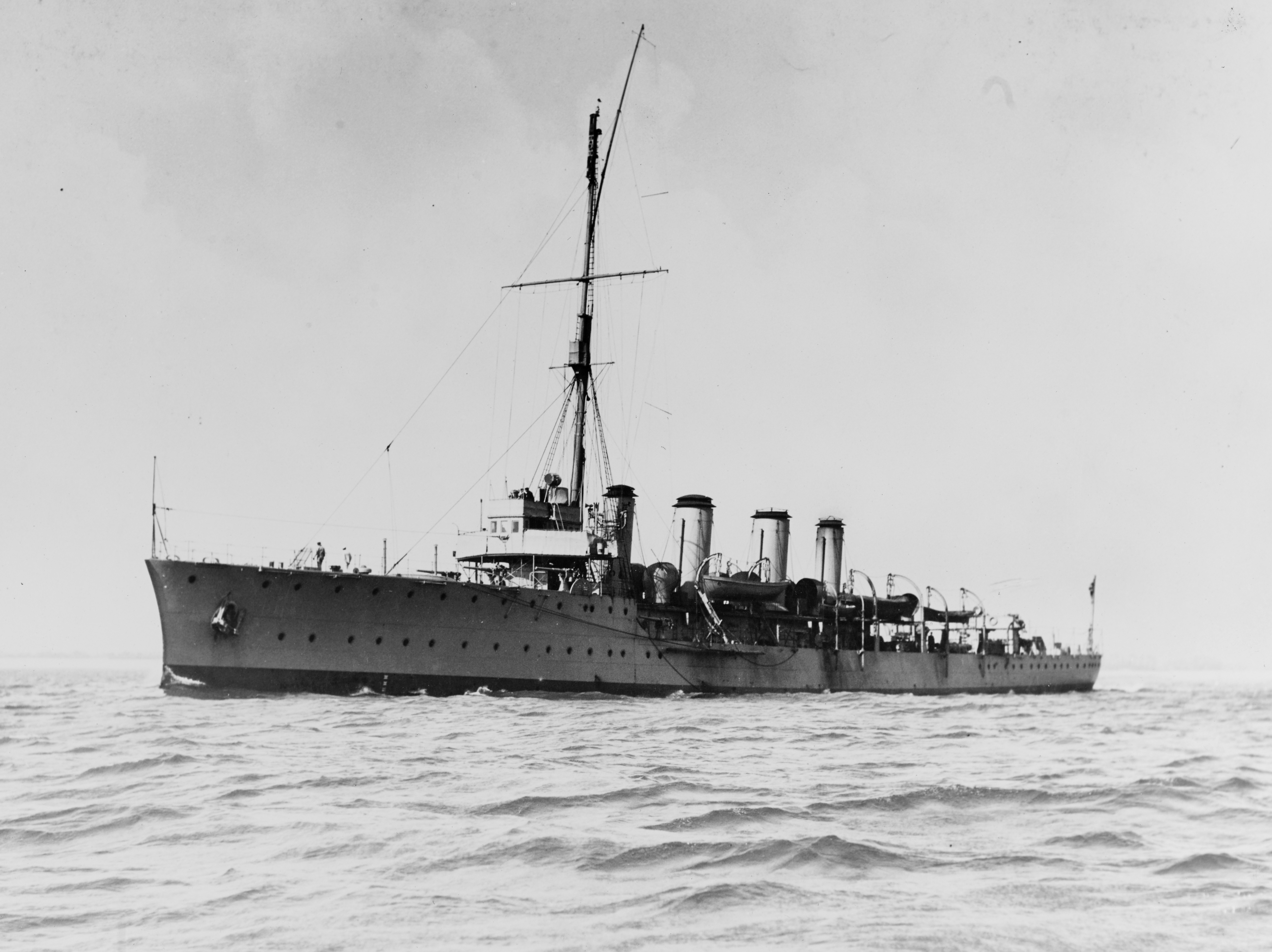 The British Royal Navy light cruiser HMS Adventure underway, circa in 1912.